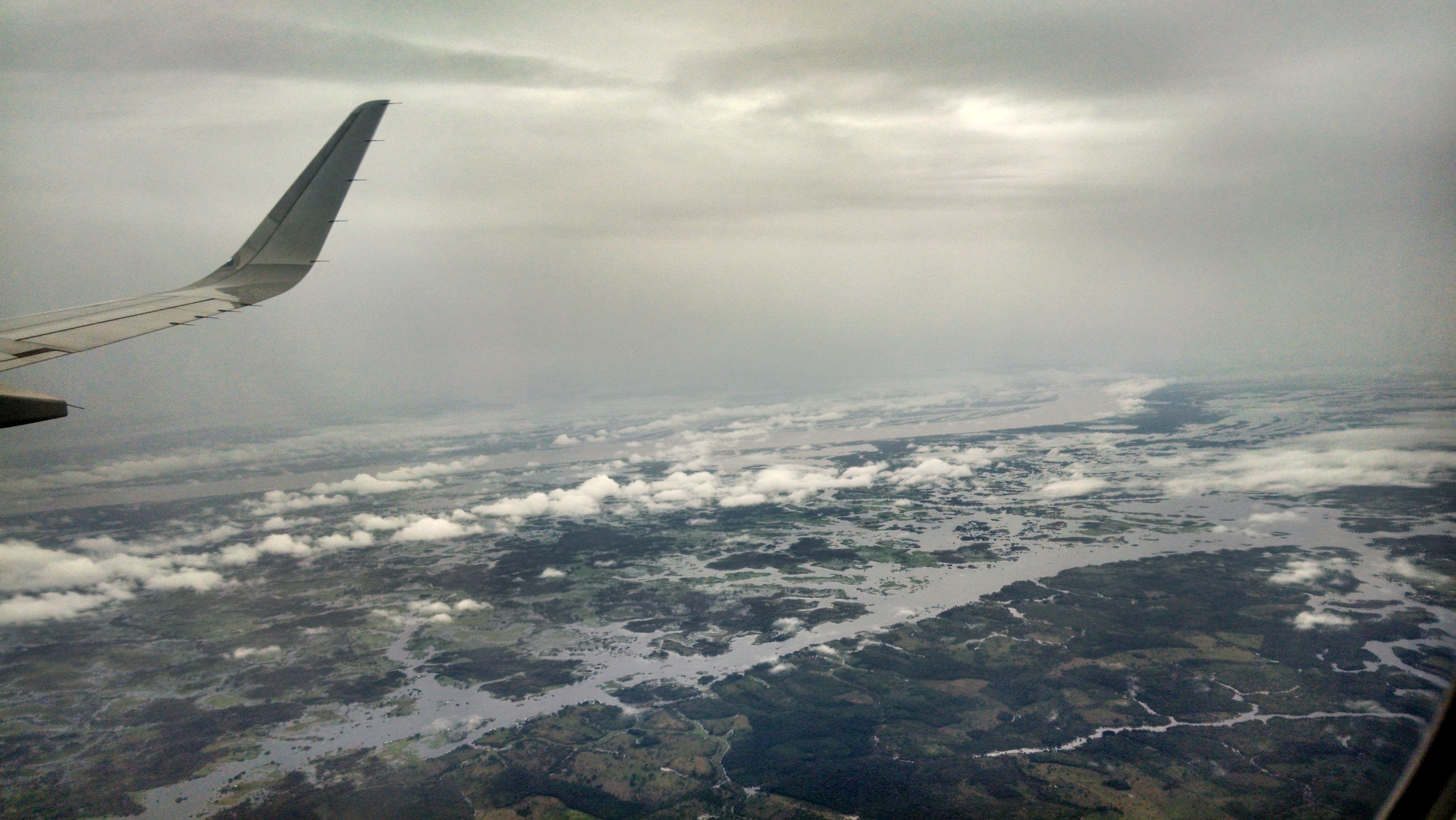 Amazon River with Várzea aereas and forest, lowland rainforest near Manaus. Low clouds over the wet aereas.